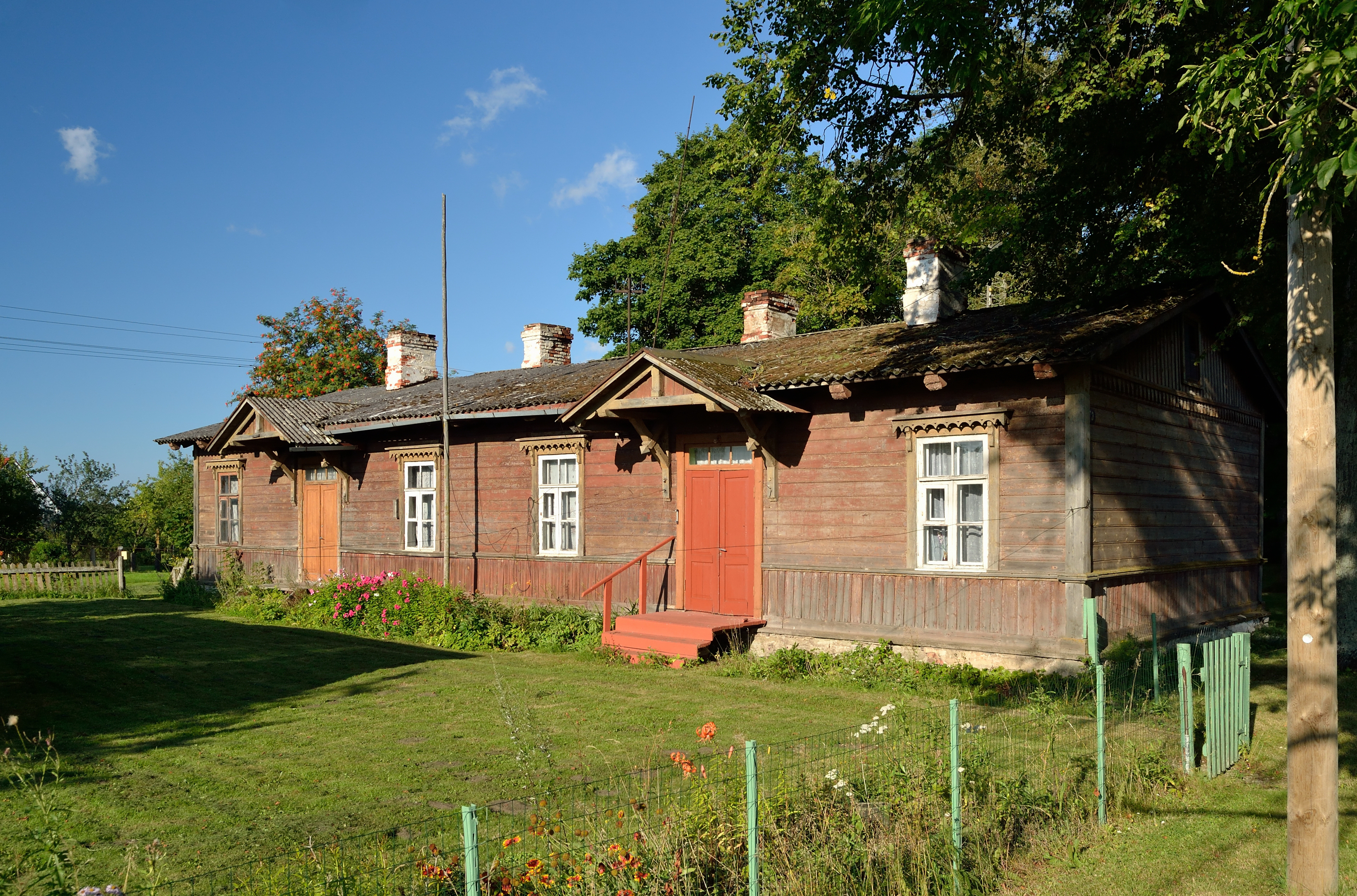 Kabala station house